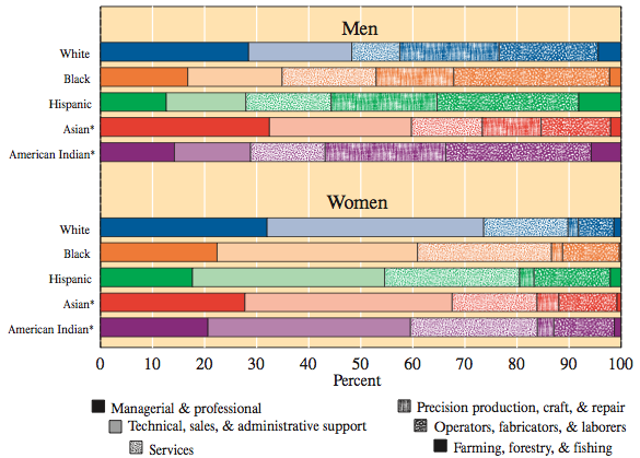 US occpuational distribution